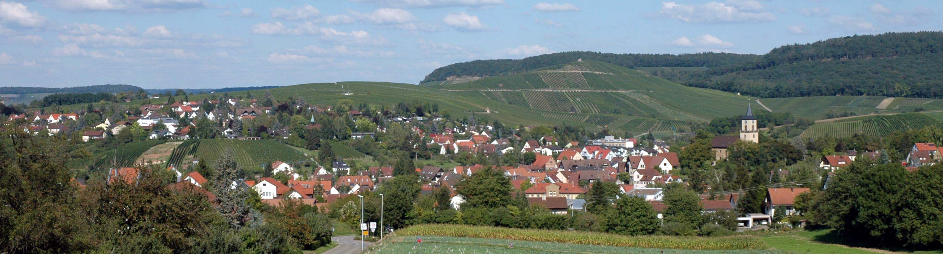 The village of Flein (Germany), as seen from the Haigern hill.